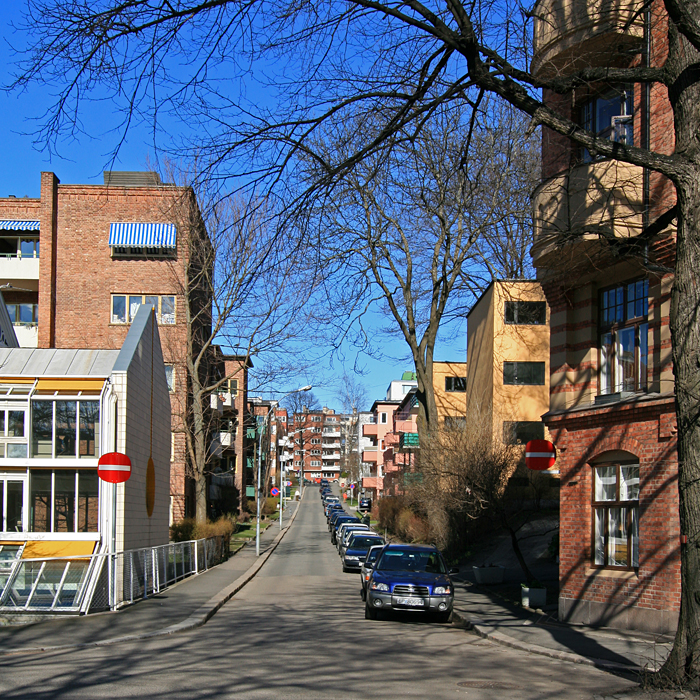 Fearnleys gate, Oslo.